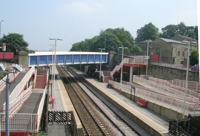 View from Bridge MVN 2-176 - Gooder Lane